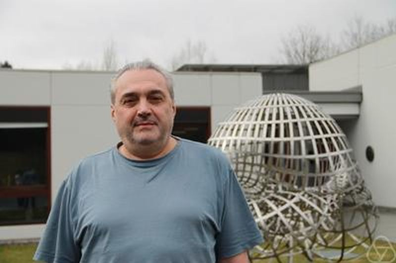 Tudor Ratiu, Oberwolfach 2013